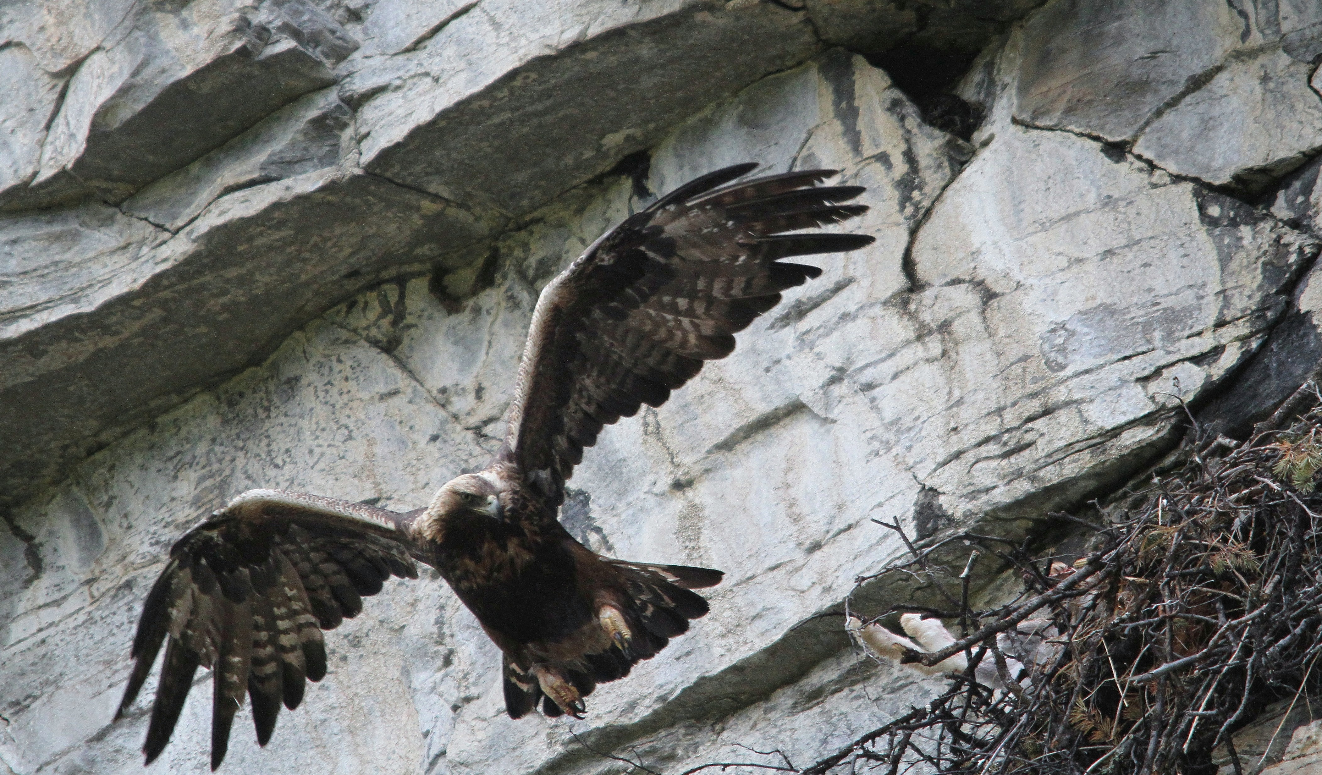 Fjelltjenestens John Lambela i Troms forteller: Jeg la merke til to kongeørner som lekte seg tidlig på våren. Ut i fra det så forventet jeg at det skulle bli hekking på en av de faste plassene. Dette skjedde ikke. I mai drømte jeg om at jeg var på telttur sammen med min datter. Hun kom springende til teltet og ropte at hun så tre stooore fugler på andre siden av elva. Da jeg våknet slo det meg at på at dette faktisk også hadde skjedd i virkeligheten for ca 20 år siden. Da var det to voksne og en unge som var bare noen hundre meter fra oss. Jeg tok meg umiddelbart til området, og det første jeg så når jeg satte teleskopet mot berget var et nytt reir med kongeørn! Etter dette har jeg et par hundre timer av min fritid i området. Her ser dere resultatet. Ungen fløy ut den 25. juli.